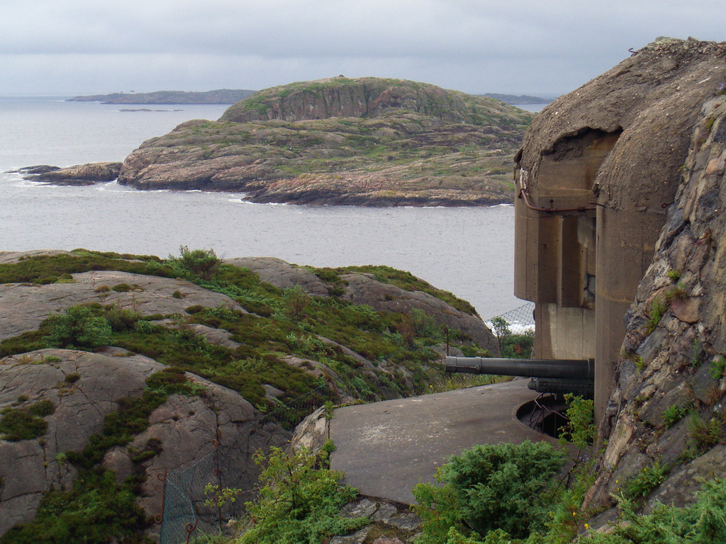 From the German «Festung Norwegen» from WWII - a large system of bunkers, tunnels, cannonposts, lightsweeps at the islands of Ny-Hellesund, Søgne, Norway.